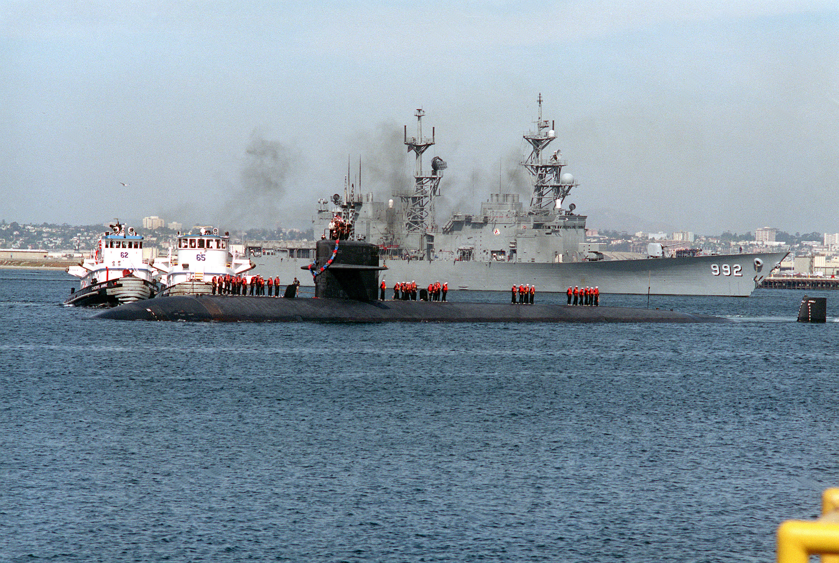 Two commercial tug boats maneuver the nuclear-powered attack submarine USS CHICAGO (SSN-721) toward the pier. The CHICAGO is returning to San Diego following its deployment to the Persian Gulf region for Operation Desert Storm. The destroyer FLETCHER (DD-992) is in the background. Location: NAVAL SUBMARINE BASE, SAN DIEGO